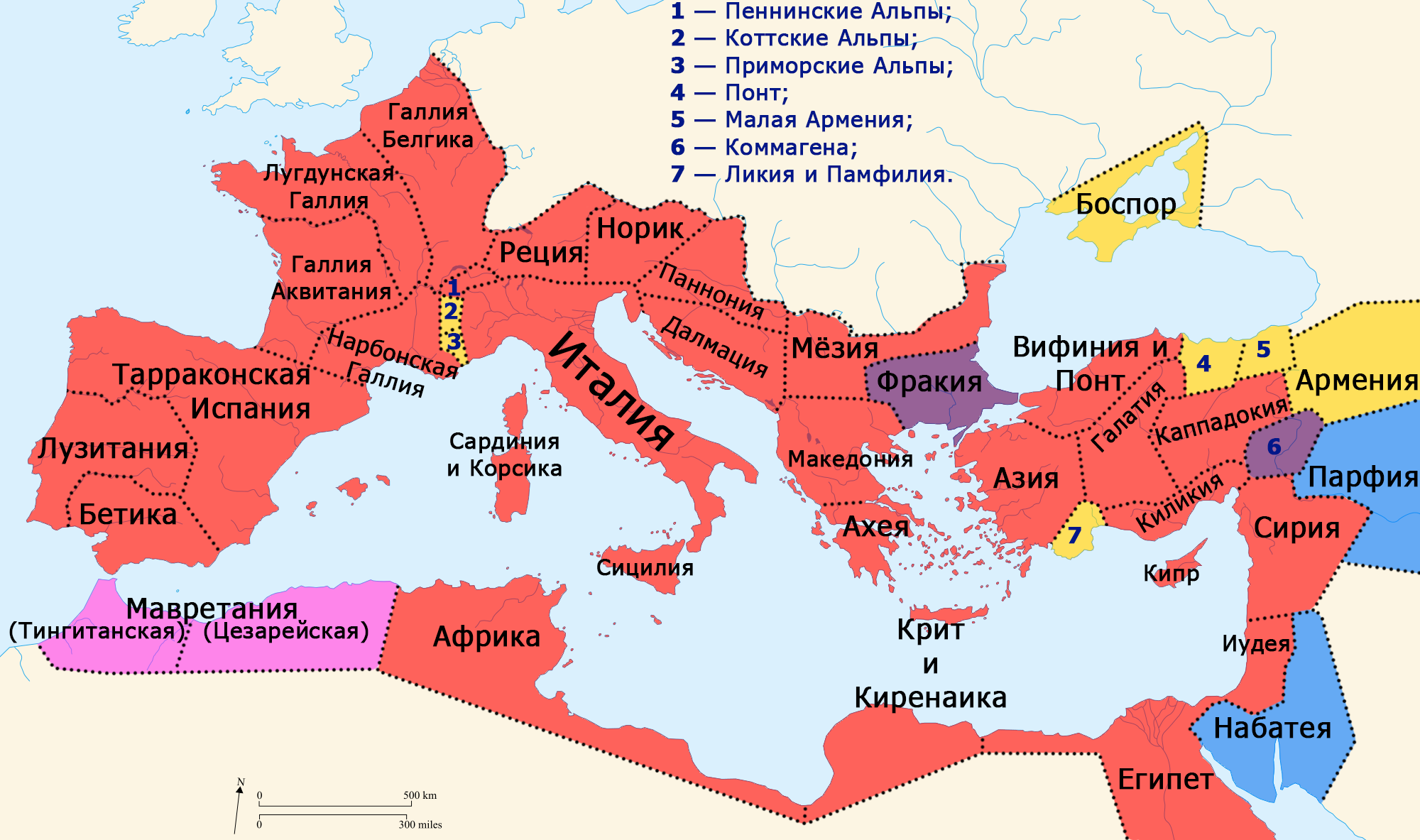 Map of the Roman Empire and neighboring states during the reign of Gaius Caligula (37-41 AD). Italy and Roman provinces Independent countries Client states (Roman puppets) Mauretania seized by Caligula Former Roman provinces Thrace and Commagena made client states by Caligula